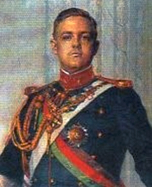 Portrait of Prince Luís Filipe of Portugal, by José Malhoa, 1908. Museum José Malhos, Caldas da Rainha, Portugal.